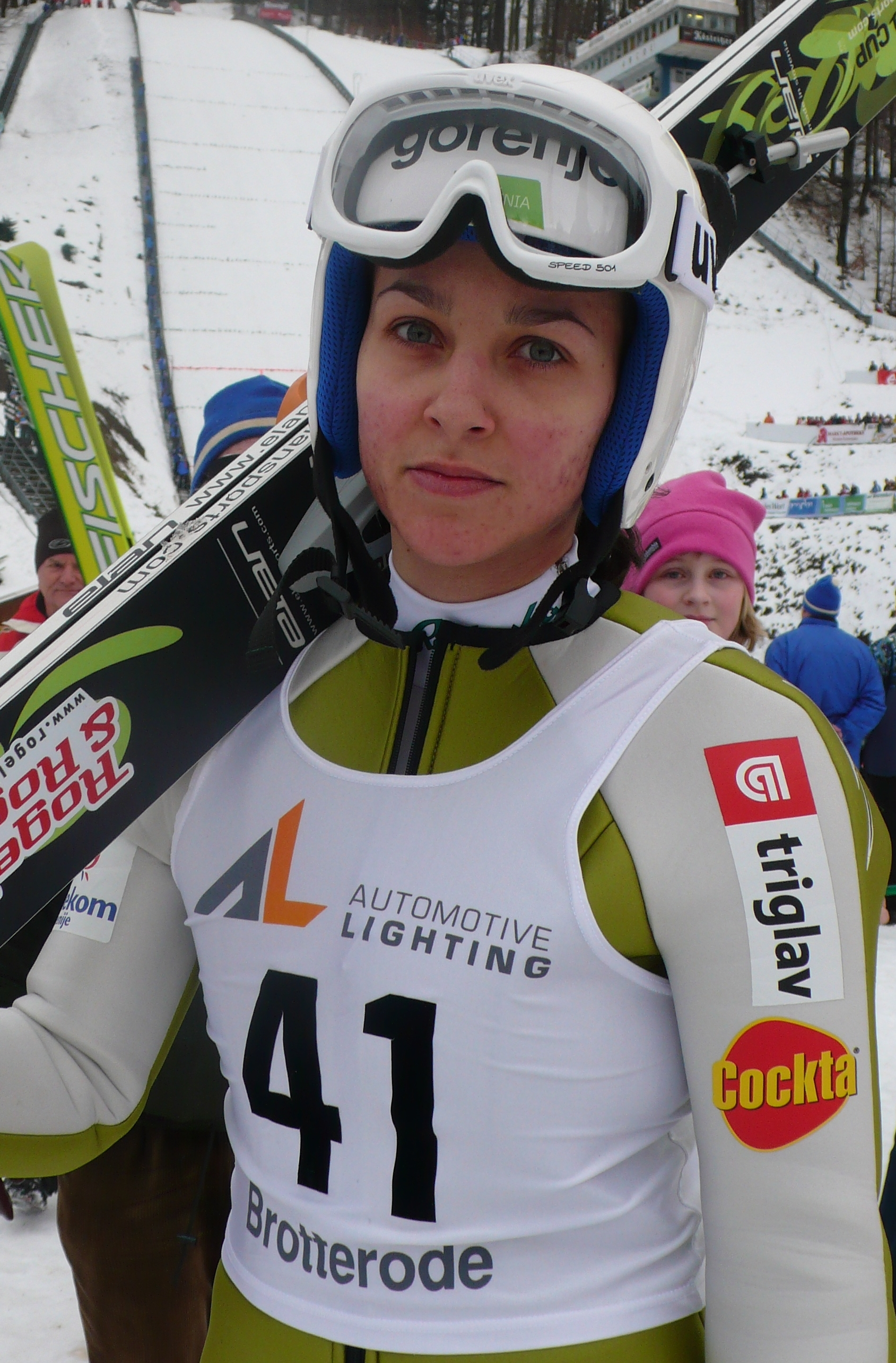 Maja Vtič